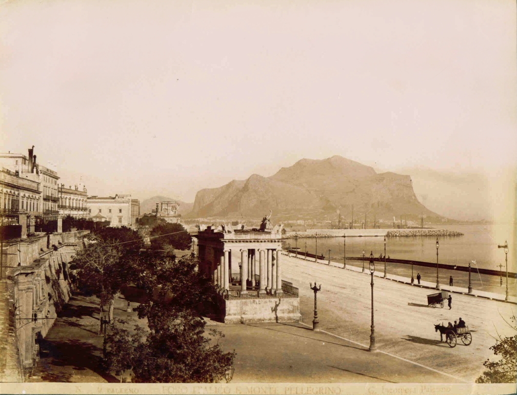 Giuseppe Incorpora (1834-1914), "Palermo - Foro italico and Mount Pellegrino". Catalogue # 131.